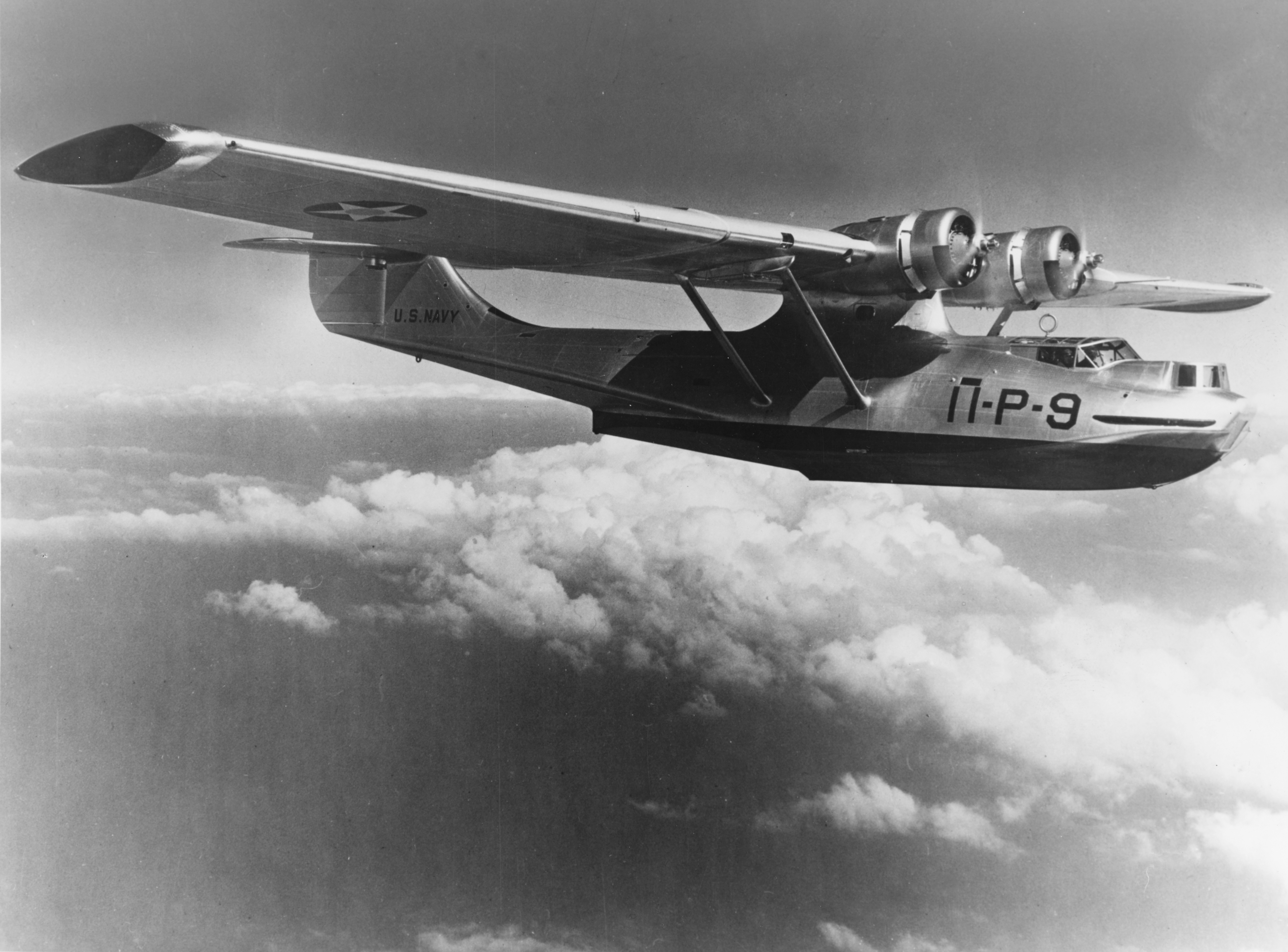 A U.S. Navy Consolidated PBY-1 Catalina of Patrol Squadron 11 (VP-11) in flight before October 1938.